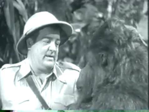 Lou Costello in Africa Screams (1949)